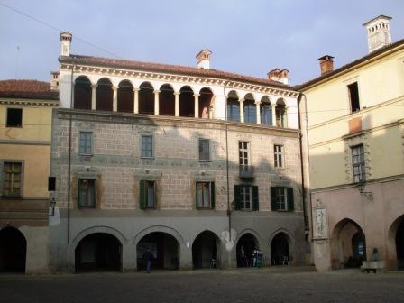 Piazza Vittorio Emanuele II in Racconigi